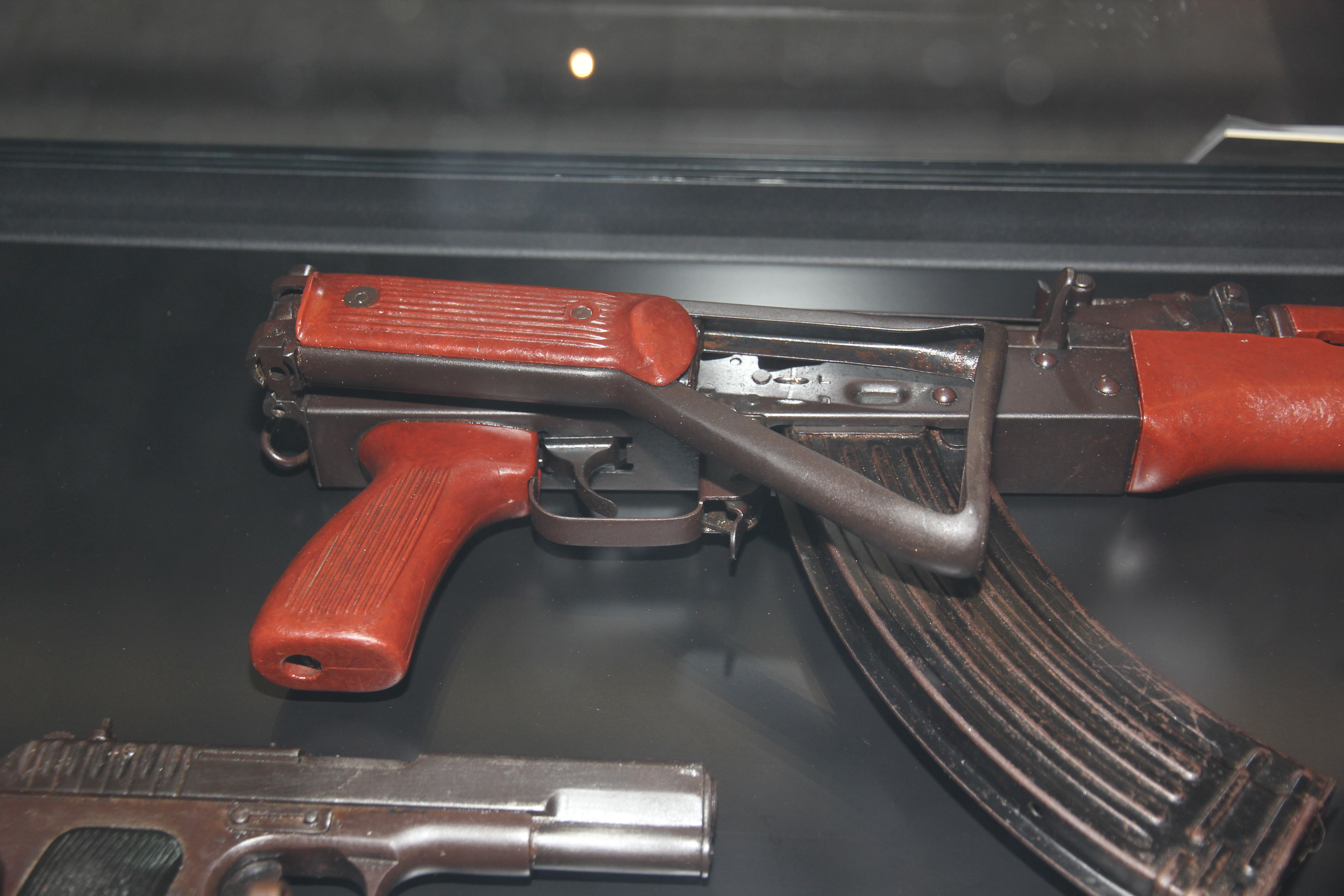 Detail of folding stock of an assault rifle (likely chinese type 56-2) confiscated from Somali pirates by Finnish minelayer Pohjanmaa during operation Atalanta, photographed in Manege military museum.